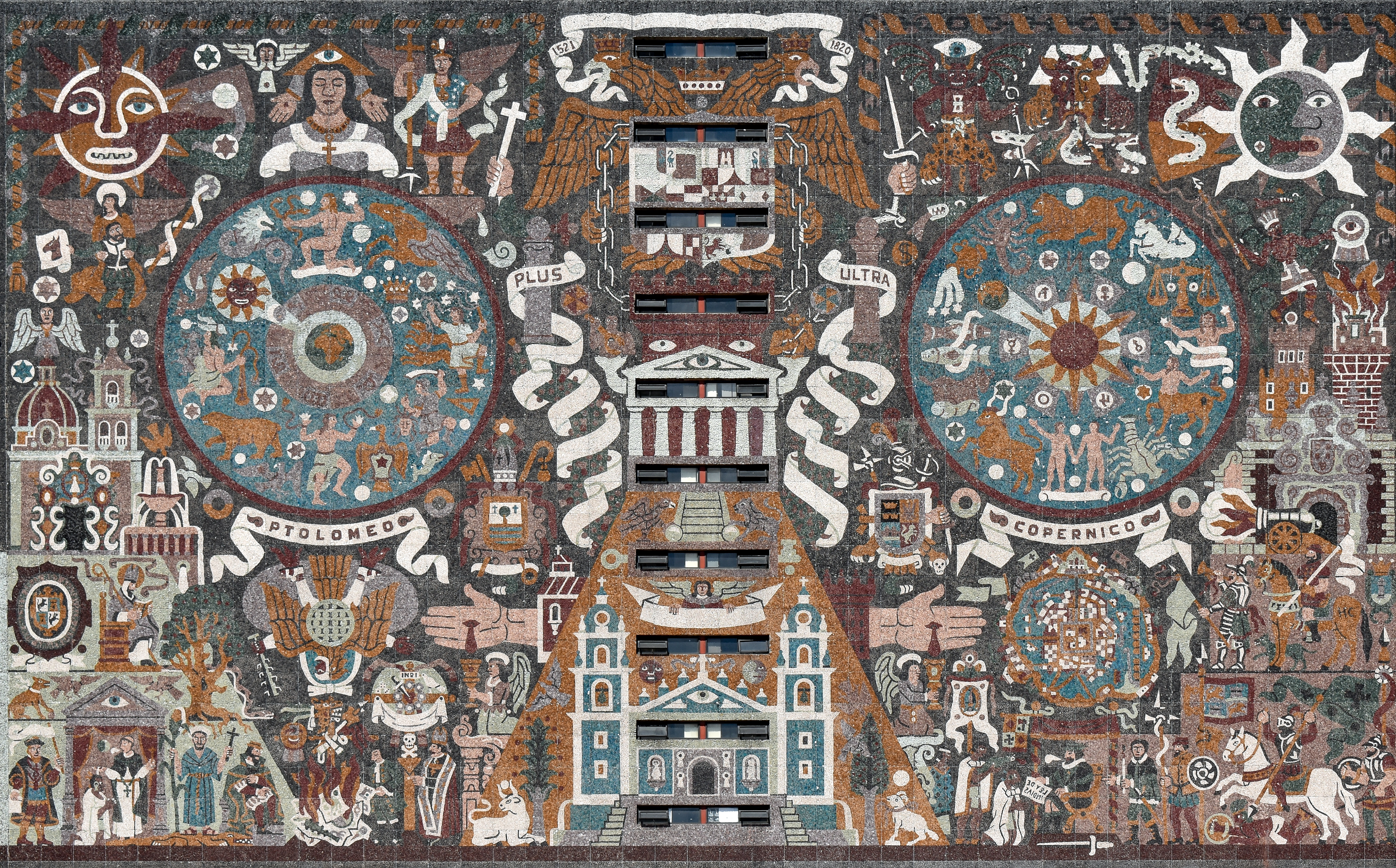 Southern facade of the Biblioteca Central at UNAM, Mexico City, Mexico